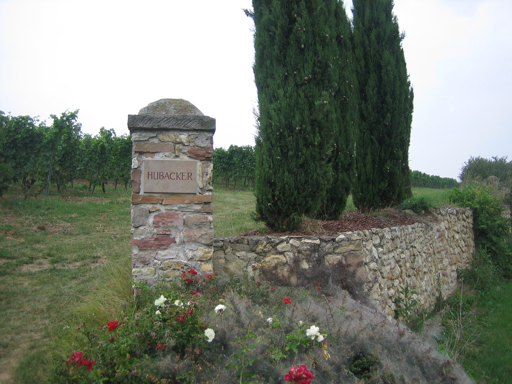 Entrance of the individual site "Dalsheimer Hubacker" vineyard in Rheinhessen, Germany. The vines of the site are suitable for wines of worldwide reputation.